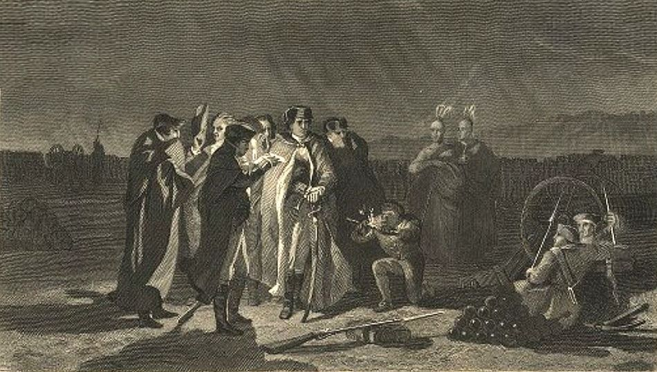 Detail of an engraving by artist John McNevin, Artist and engraver Henry Bryan Hall (1808-1884) depicting the evening council of George Washington at Fort Necessity issued in 1856.